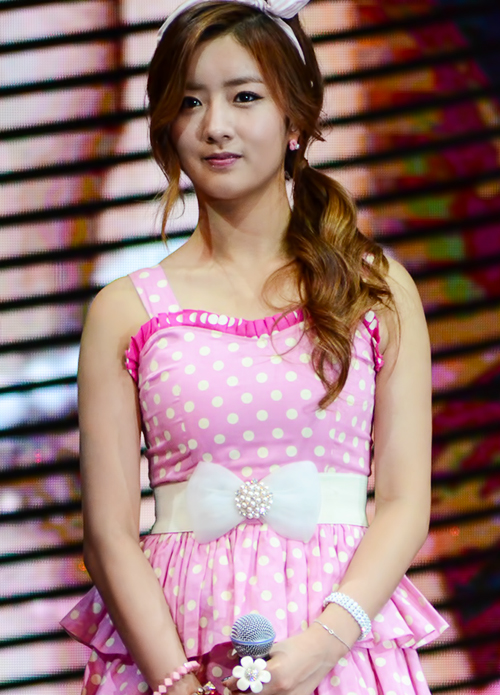 South Korean girl group A Pink member Yoon Bomi at the Vizit Korea concert in Singapore.